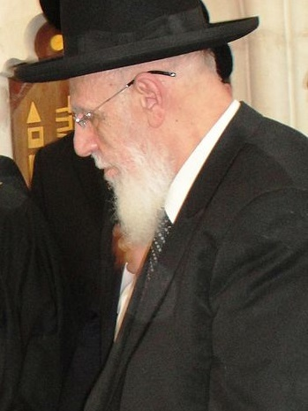 Shalom Cohen (rabbi)